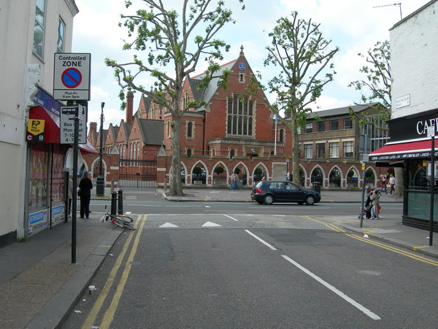 Latymer Upper School, Hammersmith As seen looking across King Street from Ravenscourt Road.